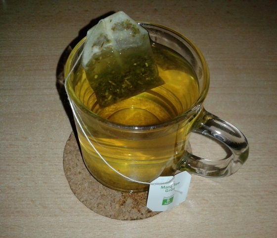 Green mate beverage, made in the "European tea method" with a teabag. Real Argentinians would probably frown upon this.